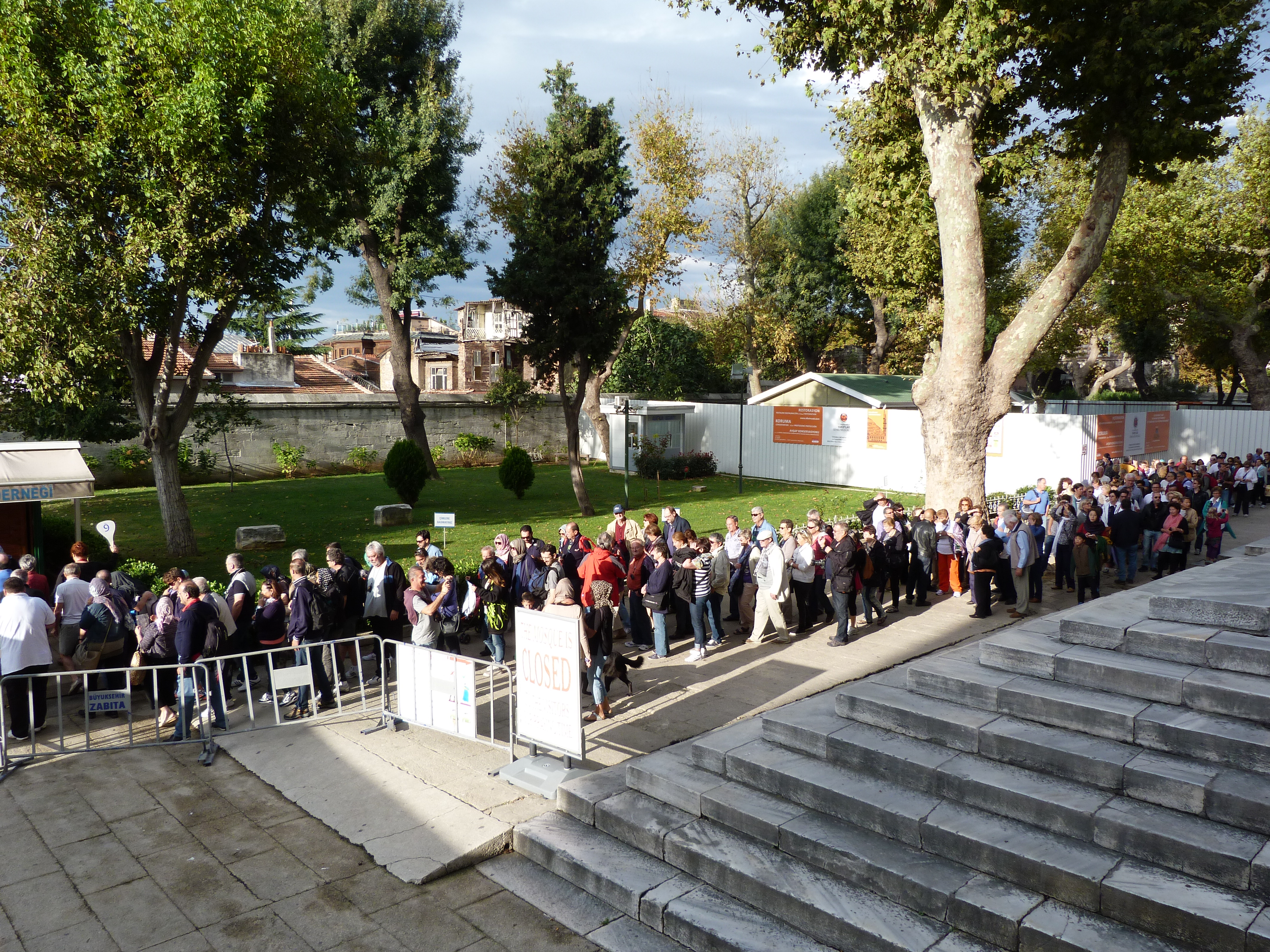 Live on the 23rd of october, 2014. Sultan Ahmed Mosque. ©© Derzsi Elekes Andor, Budapest, 2014, Published in the Metapolisz DVD line. You are authorised to use this vid under Creative Commons – even for commercial, for profit purposes. The vid must be attributed to Derzsi Elekes Andor. All of the photos and vids in the Metapolisz DVD line are under Creative Commons and can be used even for commercial – for profit – purposes. Recommended Citation Derzsi Elekes Andor: Metapolisz DVD line